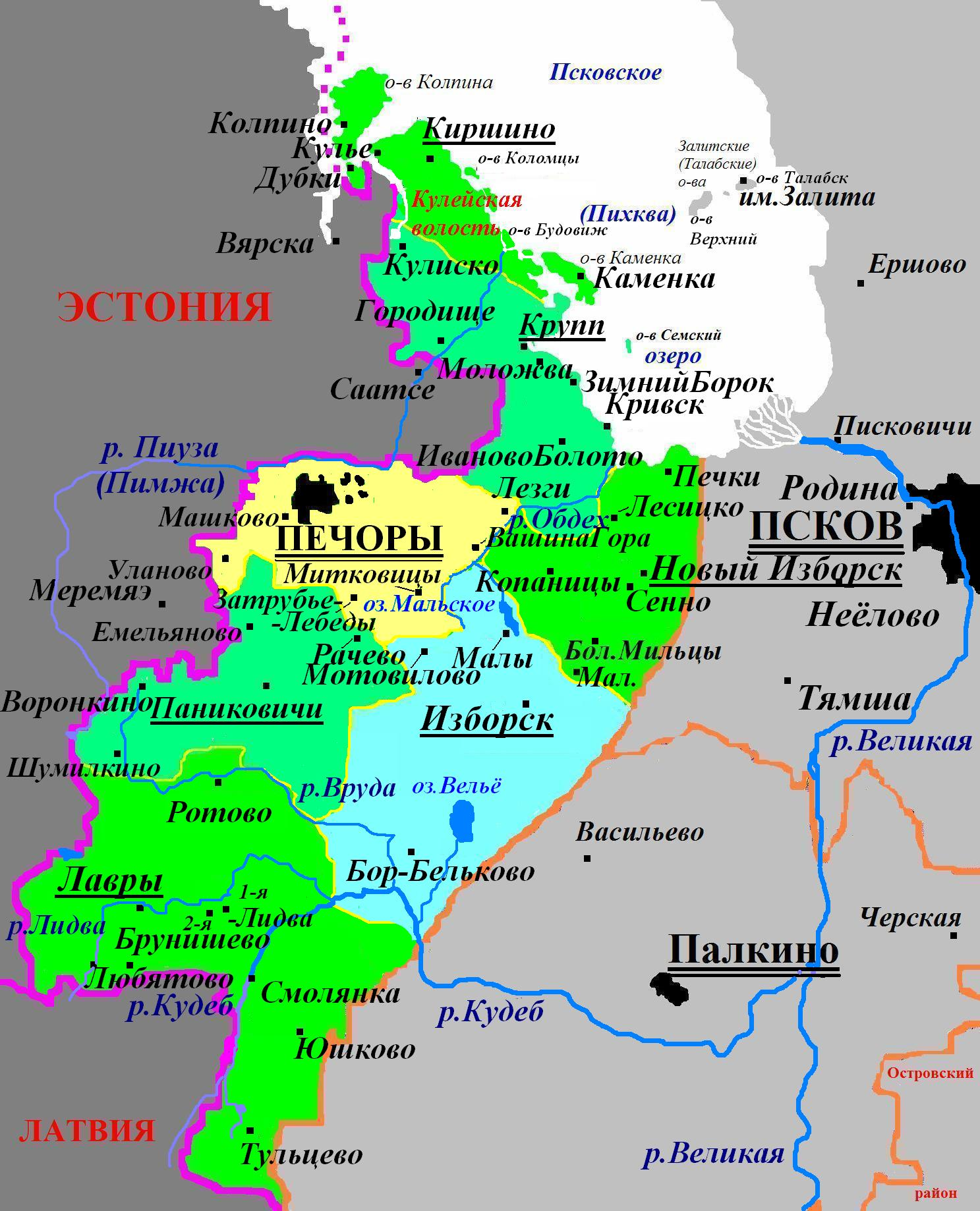 Administrativ map of the Pechora area of the Pskov region